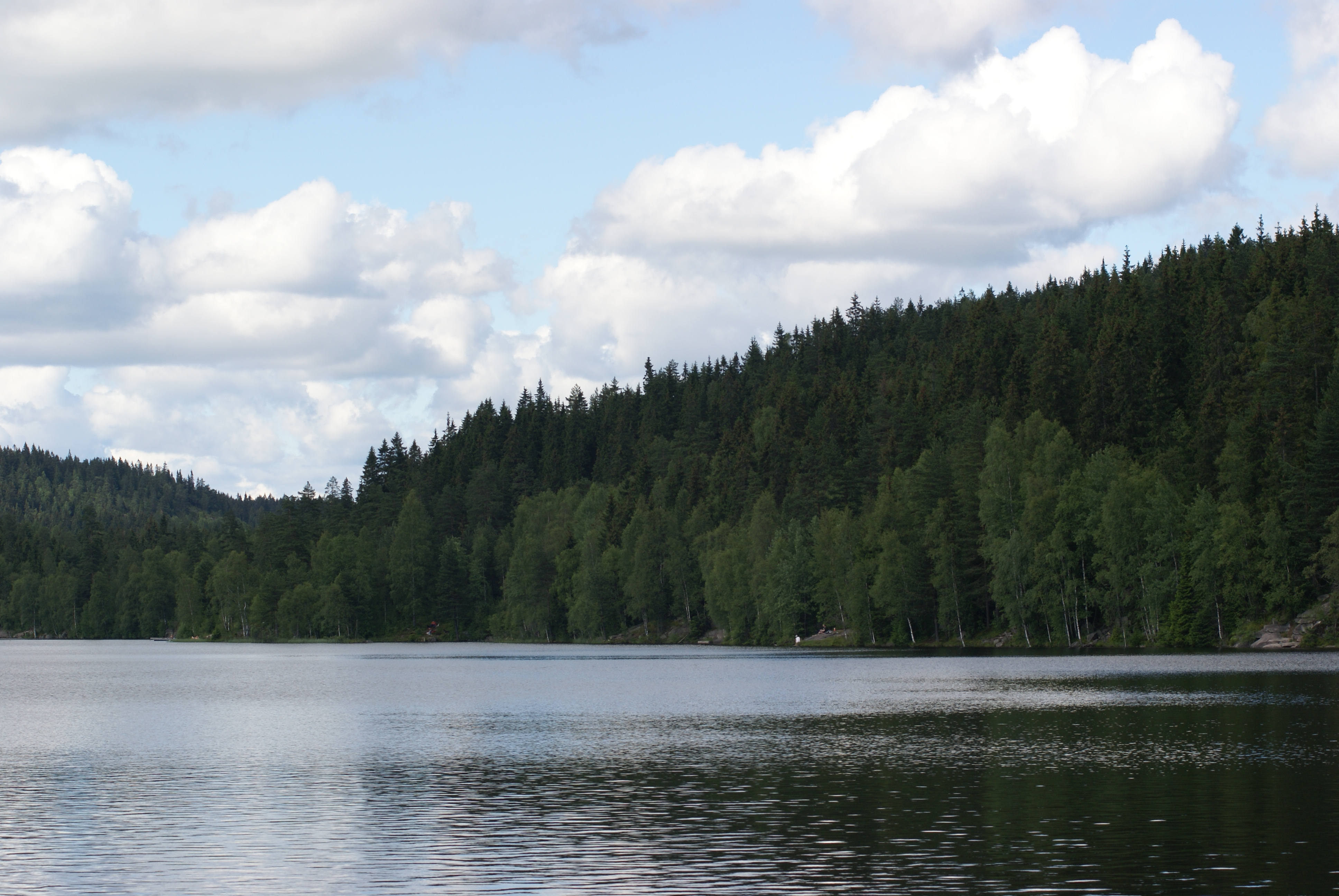 Lake Steinbruvann in Oslo (Norway)